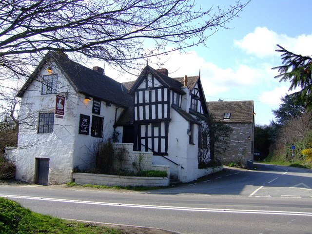 The Swan, Aston Munslow, Corvedale Lots of interesting rooms with local Shropshire beers.